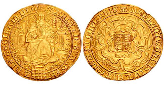 Mary. 1553-1554. AV Sovereign (15.16 g). Dated 1553. Mary seated facing on elaborate throne, holding sceptre and orb, portcullis below; mm: pomegranate Royal coat-of-arms on Tudor rose. Schneider 704; North 1956; SCBC 2488.